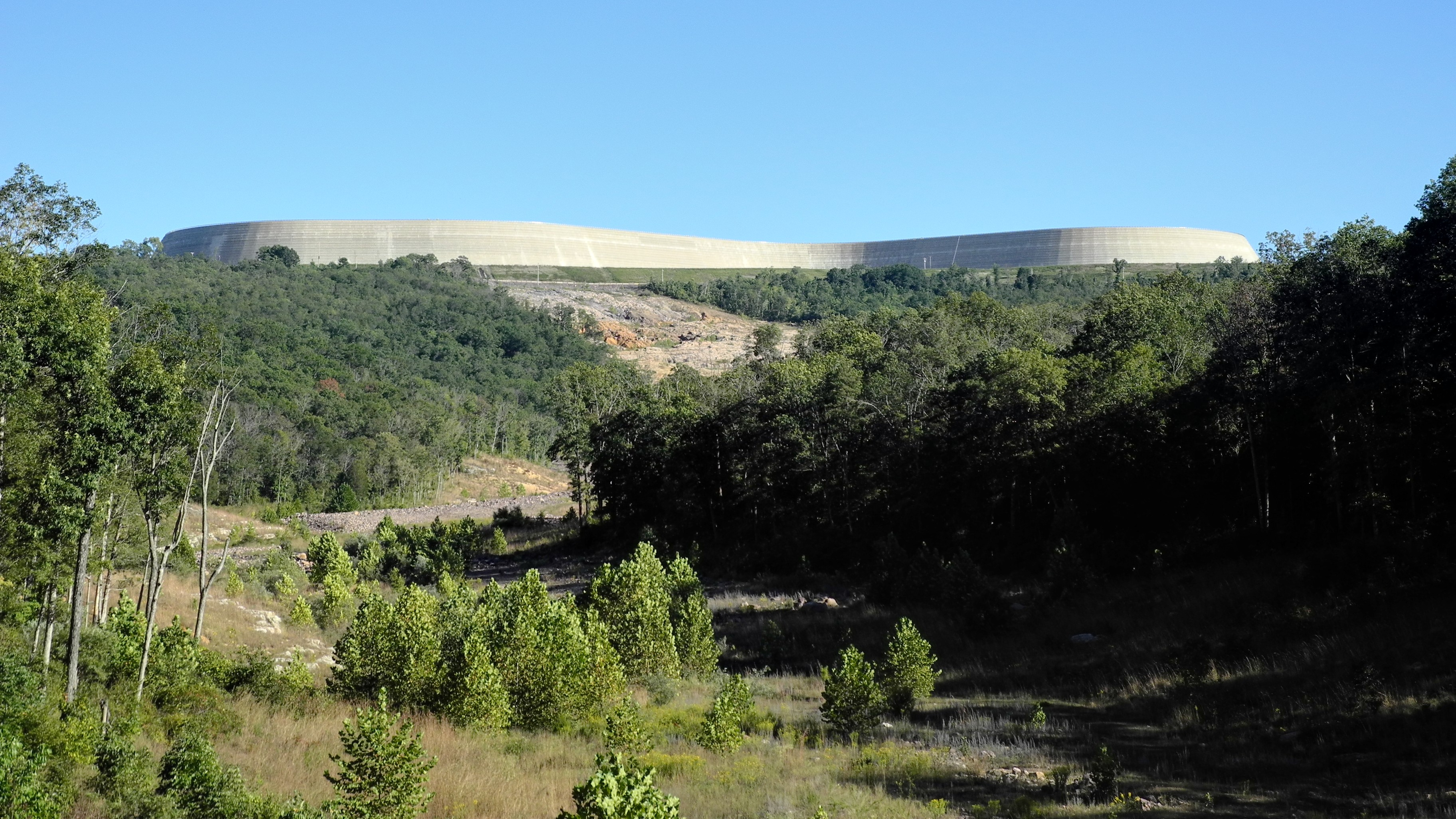 The new Taum Sauk reservoir viewed from the Scour Trail in Johnson's Shut-Ins State Park